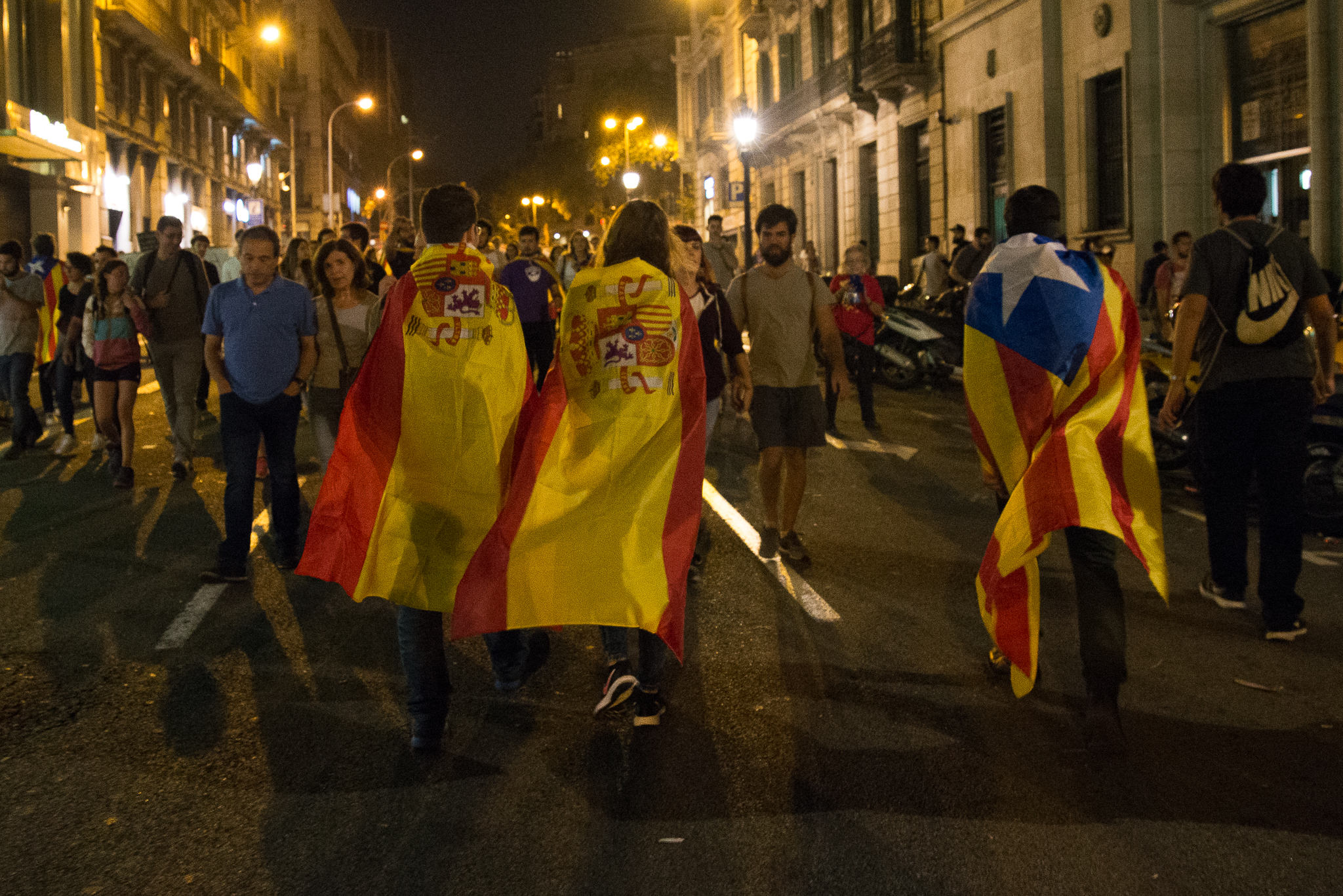 Catalan general strike of October 3, 2017 against police brutality. Protesters with Independentist flag and Spanish flag together for peace, walking along Via Laietana, Barcelona city.